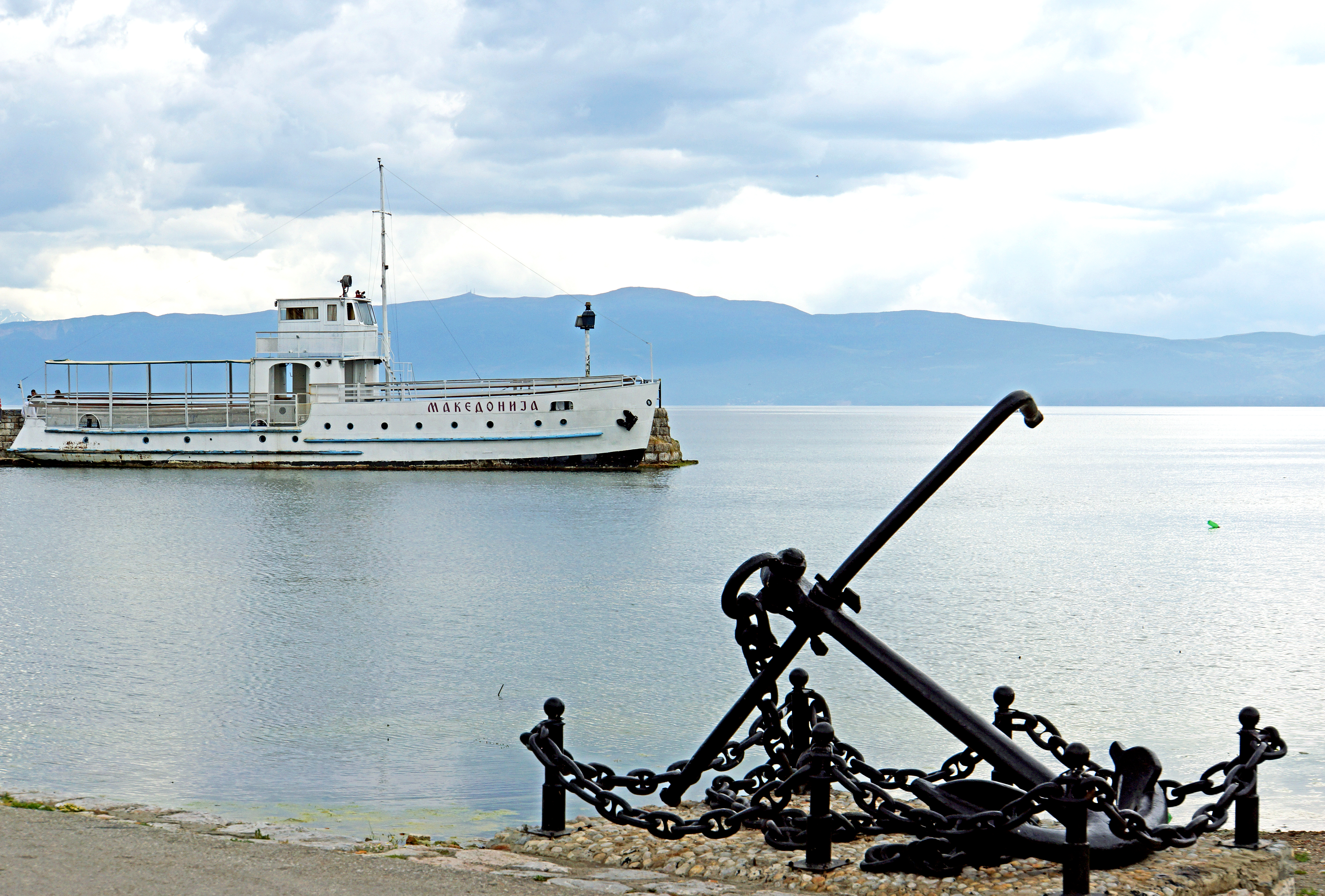 View of Lake Ohrid and the tour boat Macedonija.